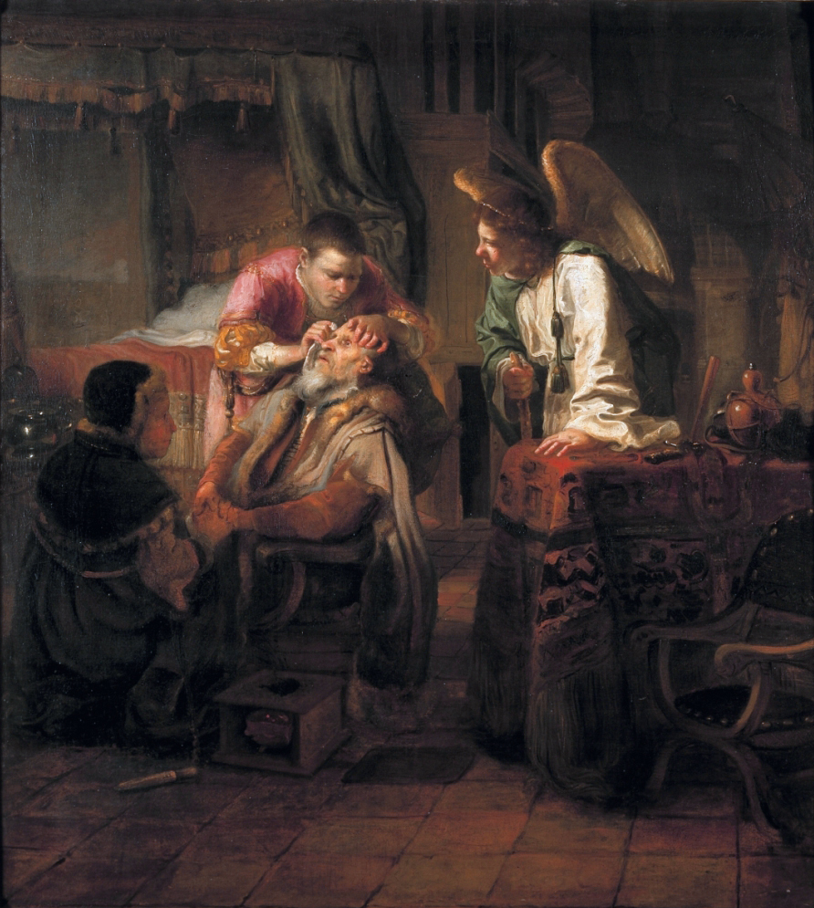 The healing of Tobit: Tobias puts the gall of the fish on his father's eyes oil on canvas 123 x 109 cm remnants of signature upper left 1645 - 1655